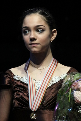 Evgenia Medvedeva at the Junior World Championships 2015 - Awarding ceremony